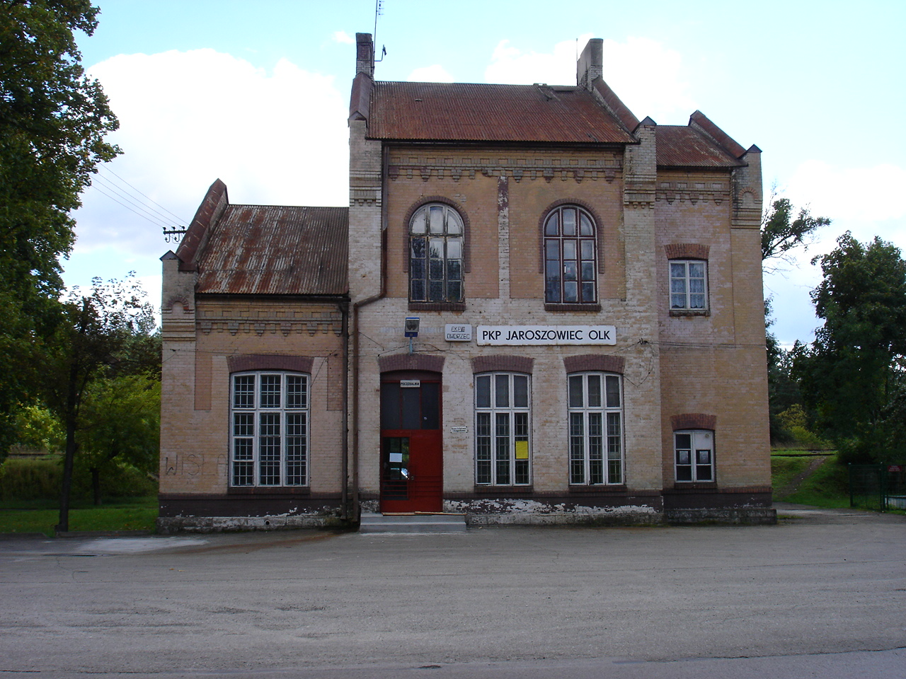 The railway station building in Jaroszowiec near Olkusz. To get to the platform you have to go through the underground passage, which is situated 40 metres away.